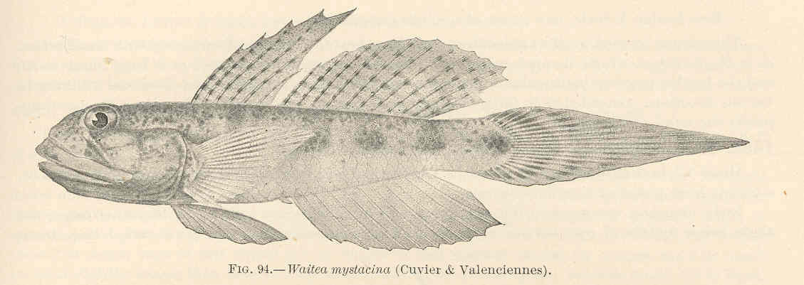 Waitea mystacina (Cuvier & Valenciennes) Subject: Gobiidae, Waitea Tag: Fish